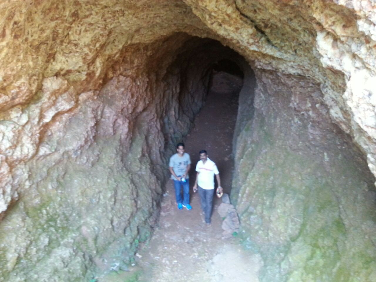 Karez System in Bidar. Pic By : Rishikesh Bahaddur Desai